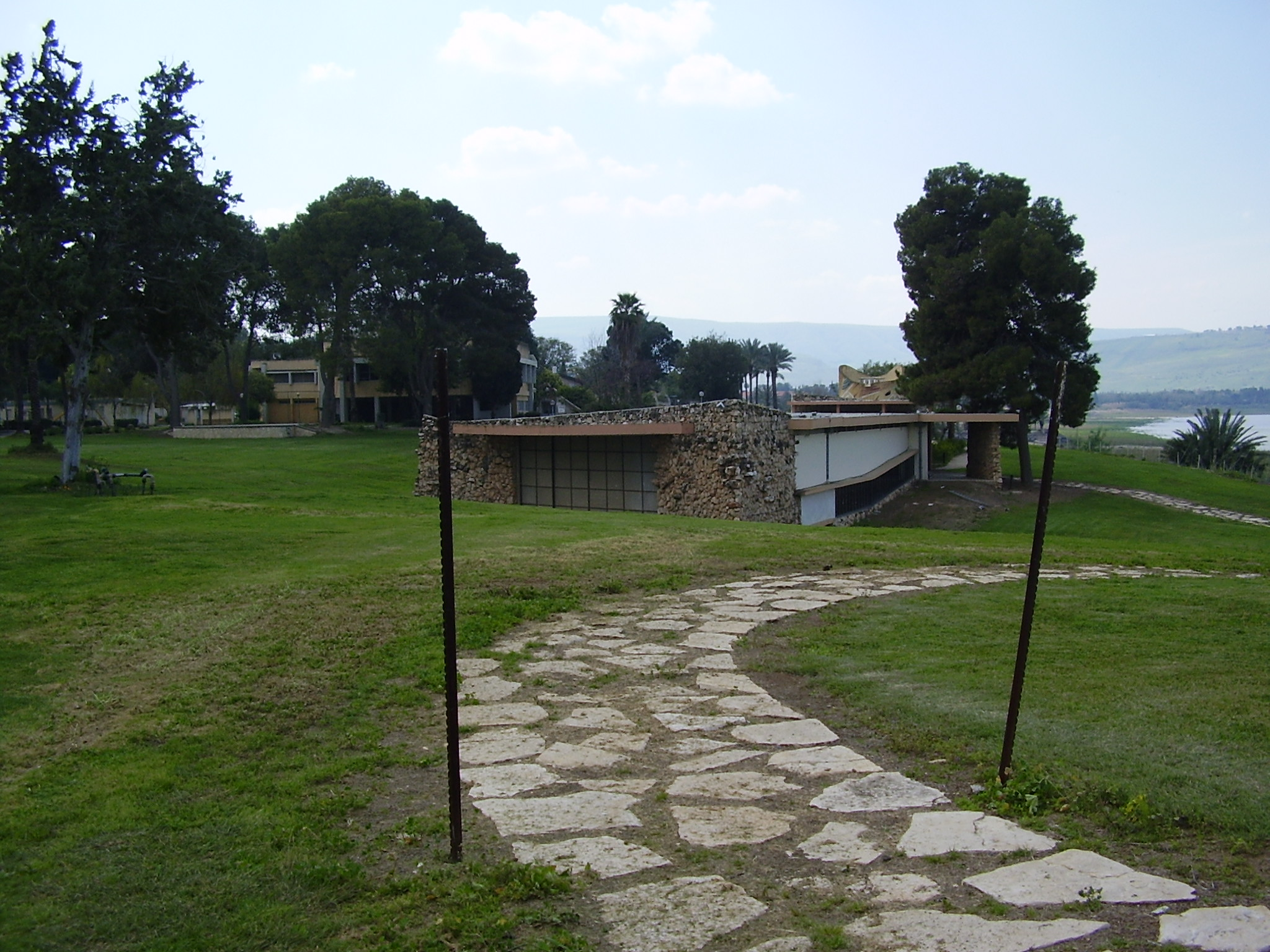 paratroopers house in kibutz ma\'agan